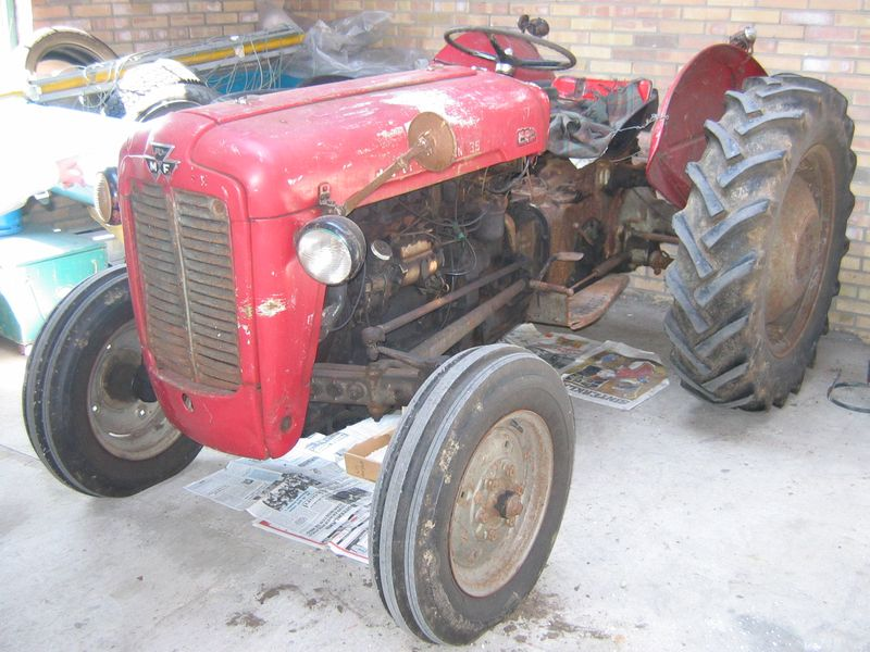 Massey-Ferguson 35 tractor